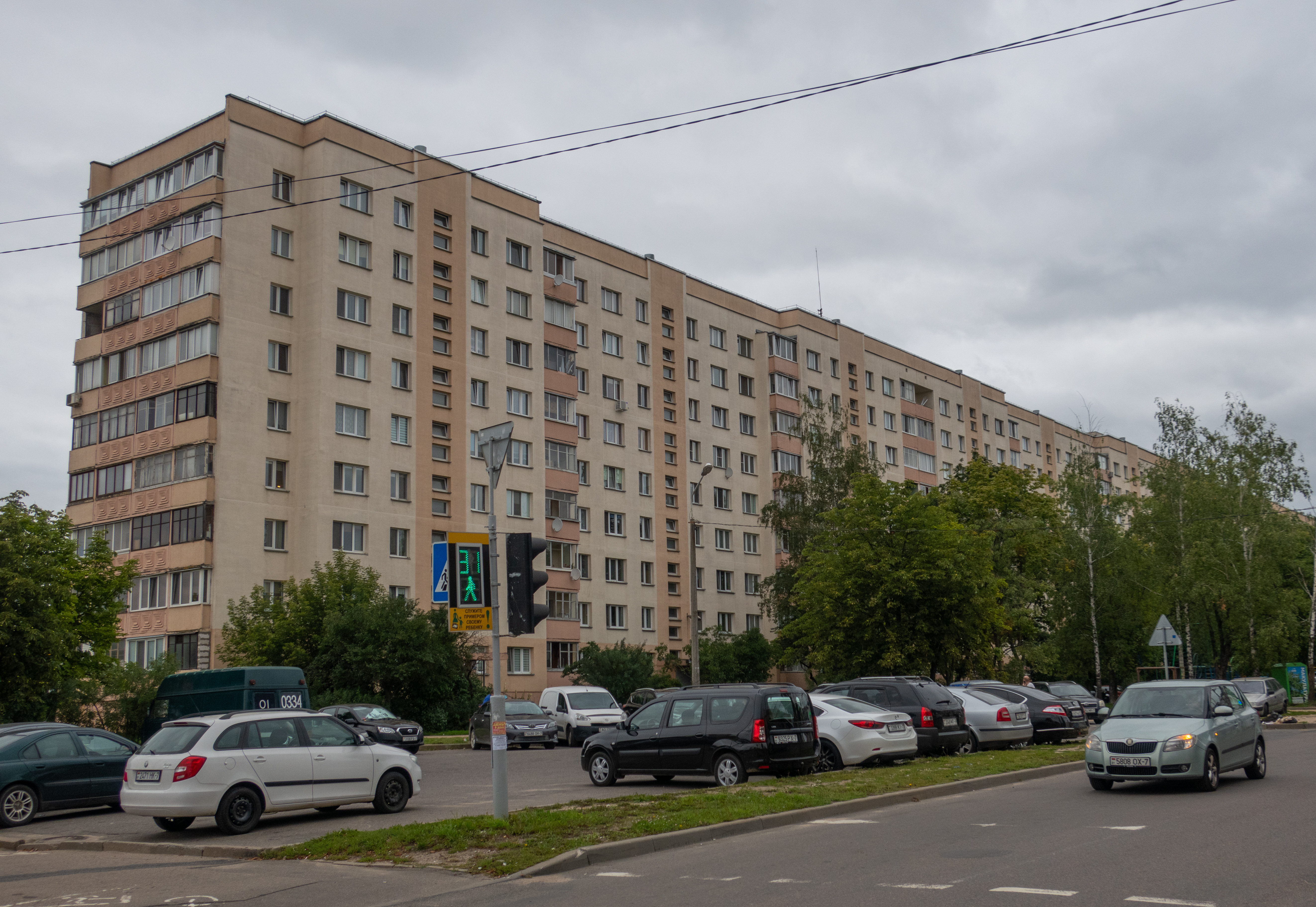 Bahracijona 2nd Lane. Minsk, Belarus